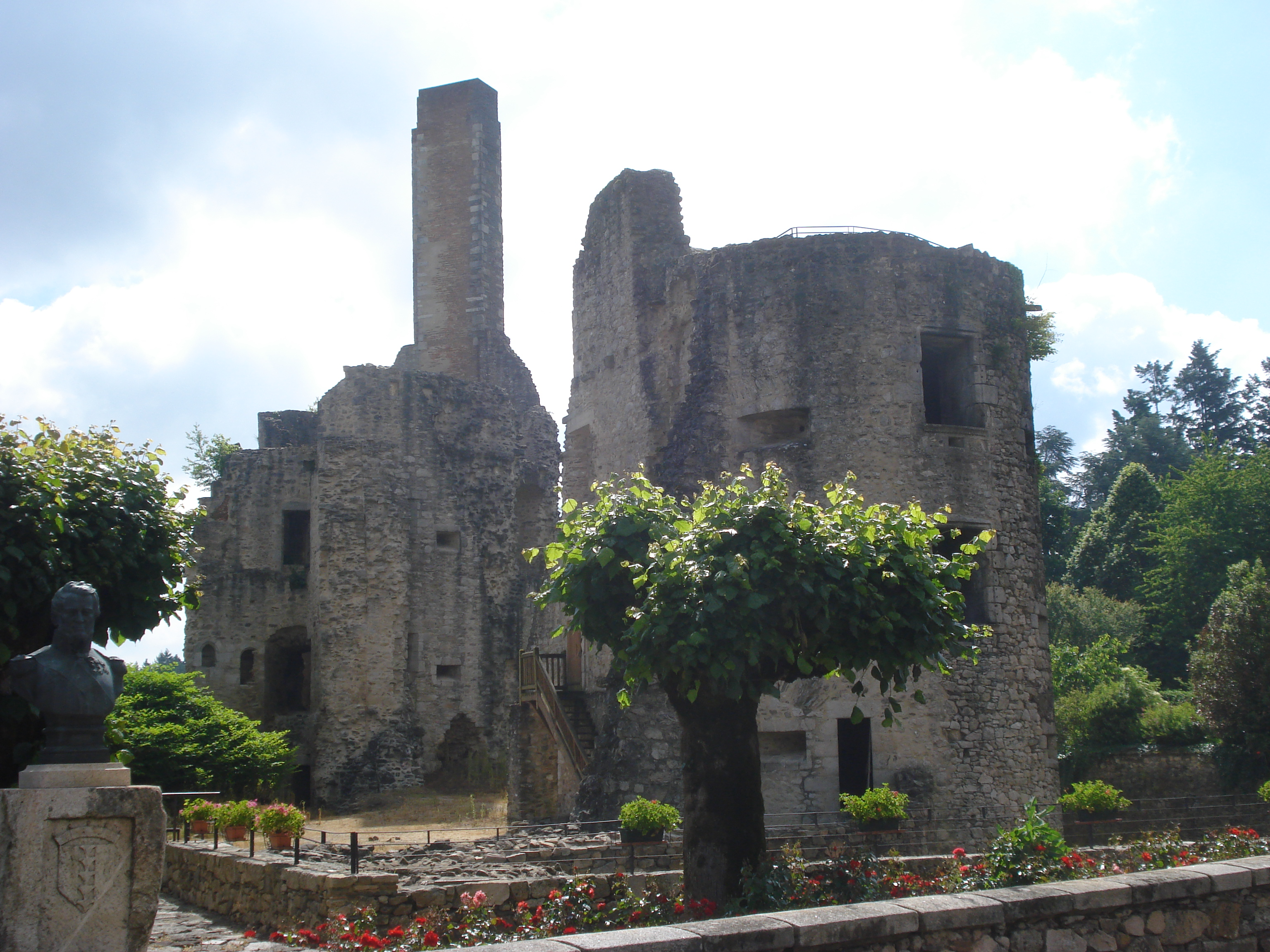 Les_Cars (Haute-Vienne, Fr), castle ruins